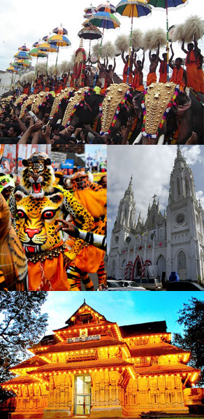 Thrissur montage